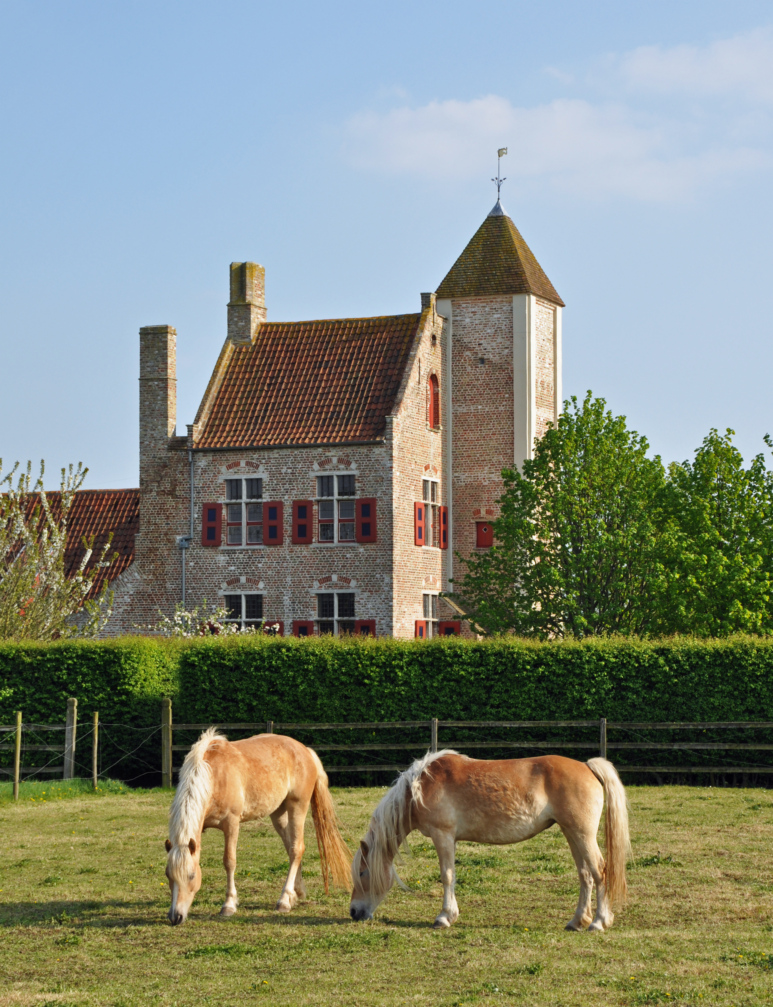 Bruges (Belgium): Peralta Farm